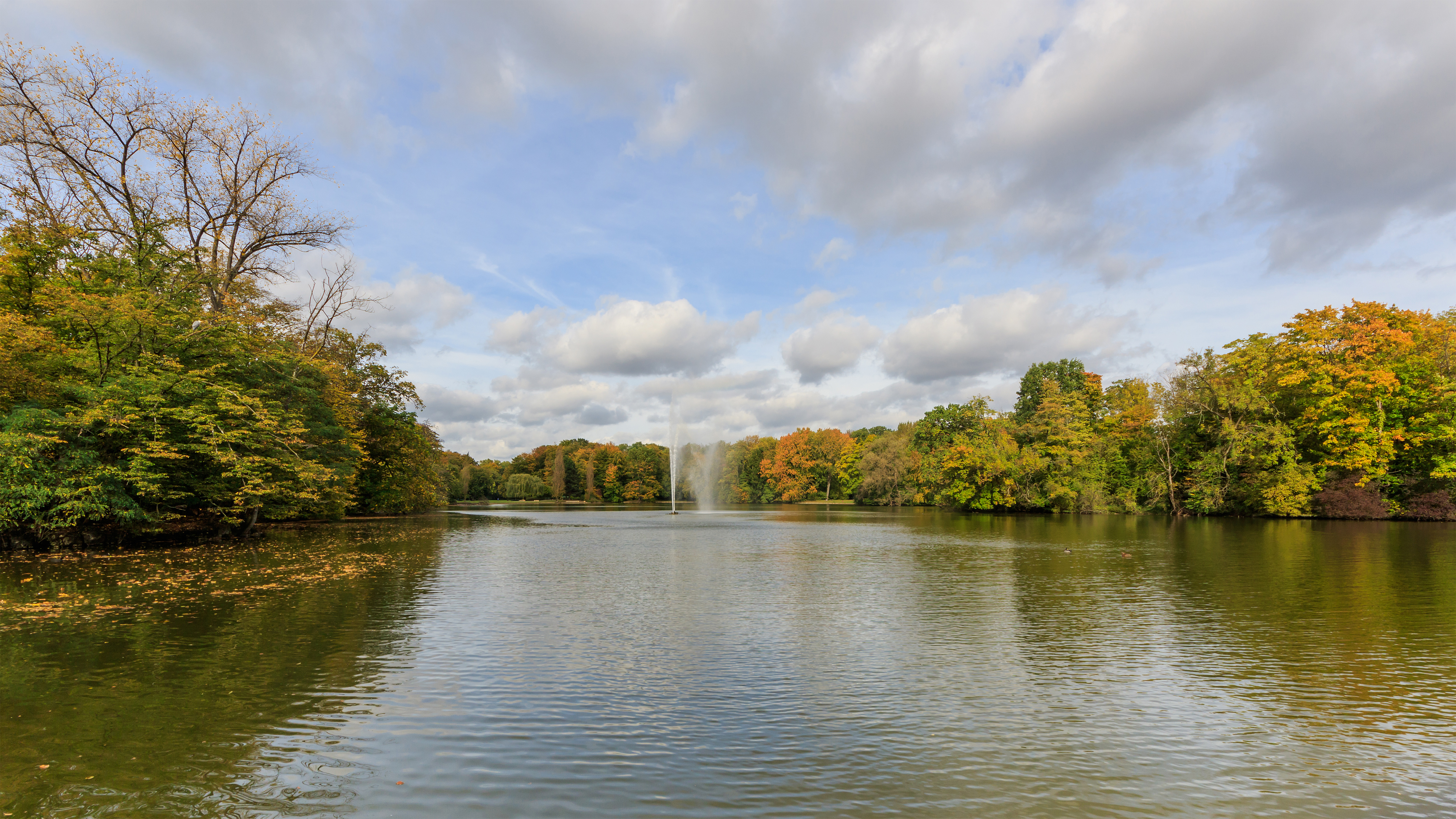 City Forest in Cologne (Germany)